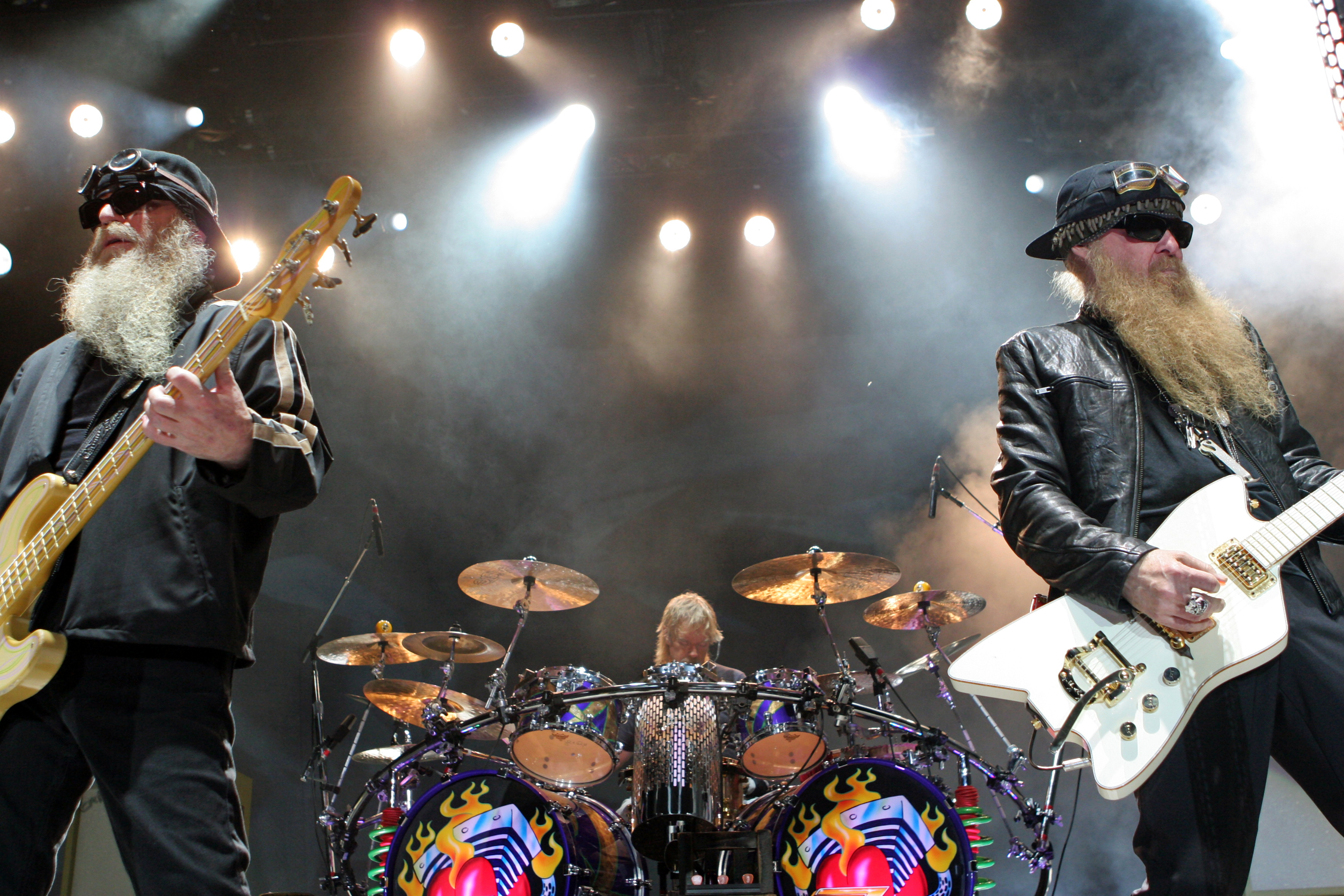 ZZ Top in concert